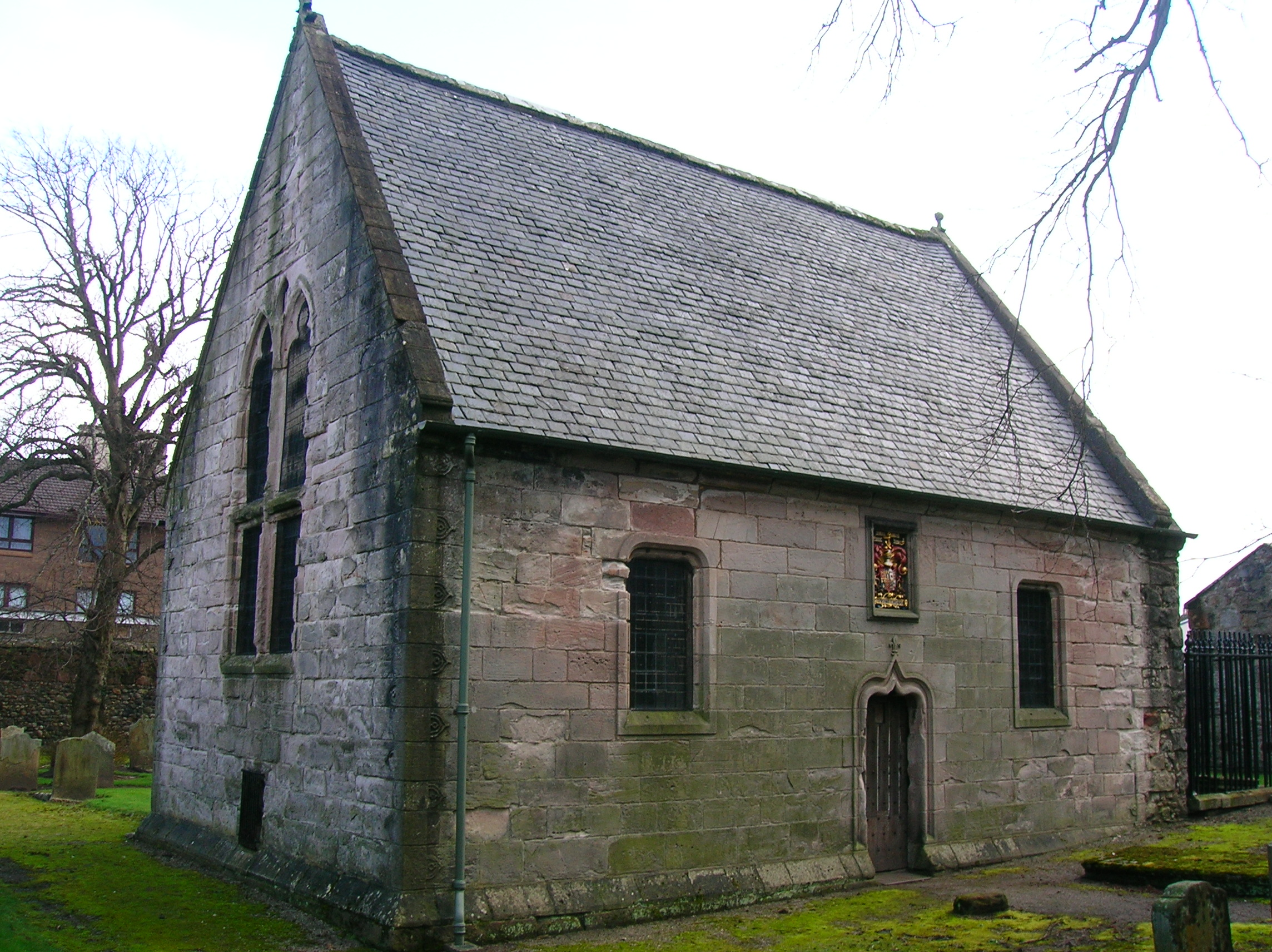 The Skelmorlie Aisle, Largs, North Ayrshire, Scotland.